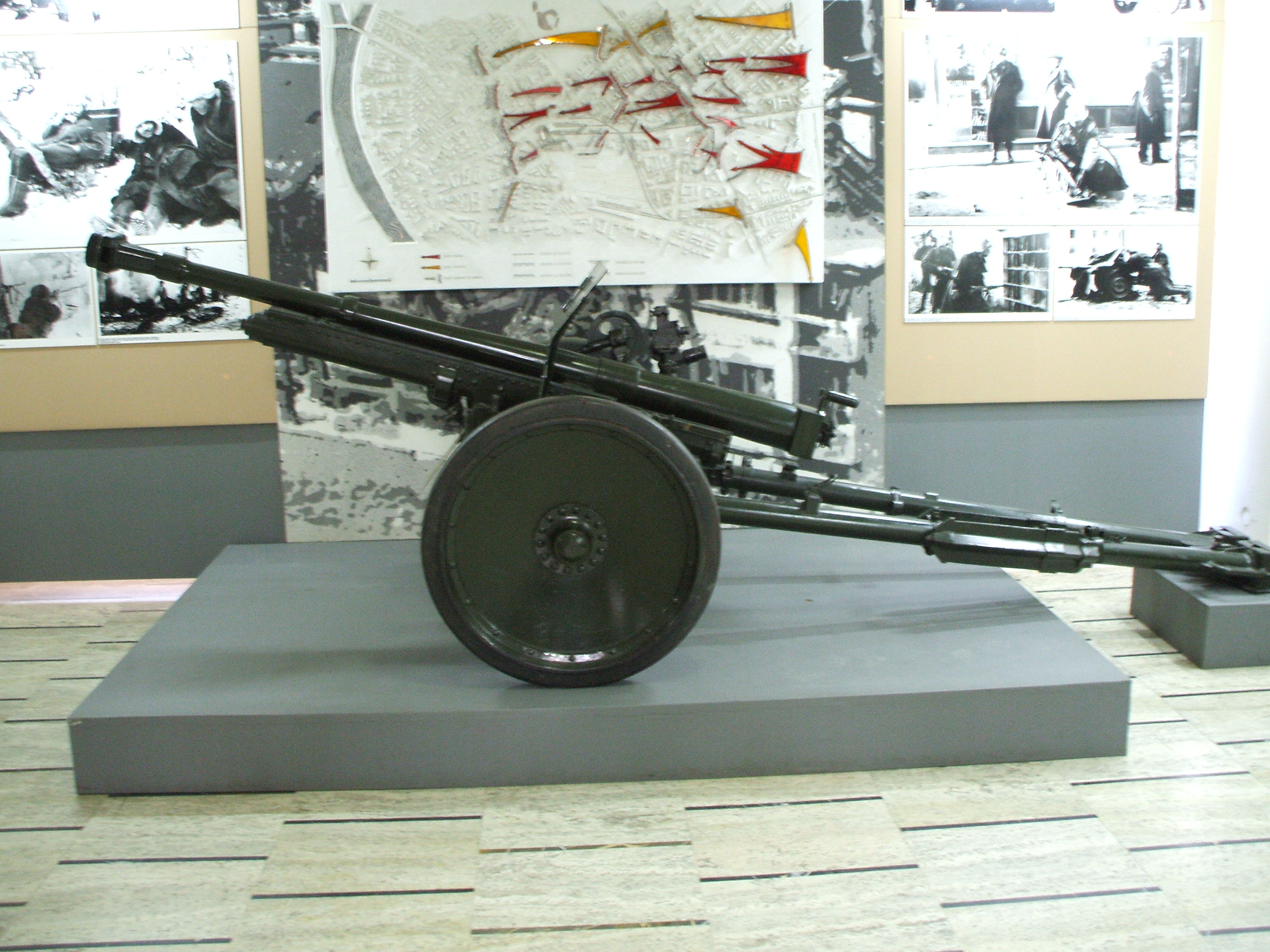 A 47 mm Schneider Mle 1936 AT gun on display at the National Military Museum in Bucharest. The gun was licensed built in Romania during WW2 at the Concordia factories.